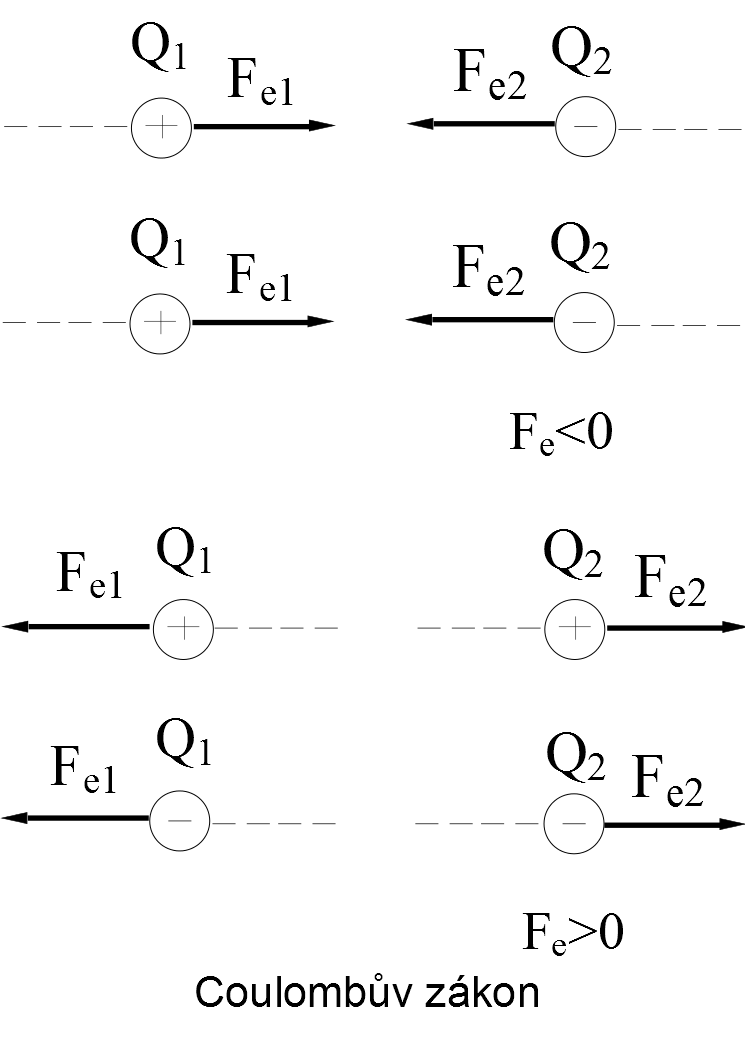 Coulomb's law